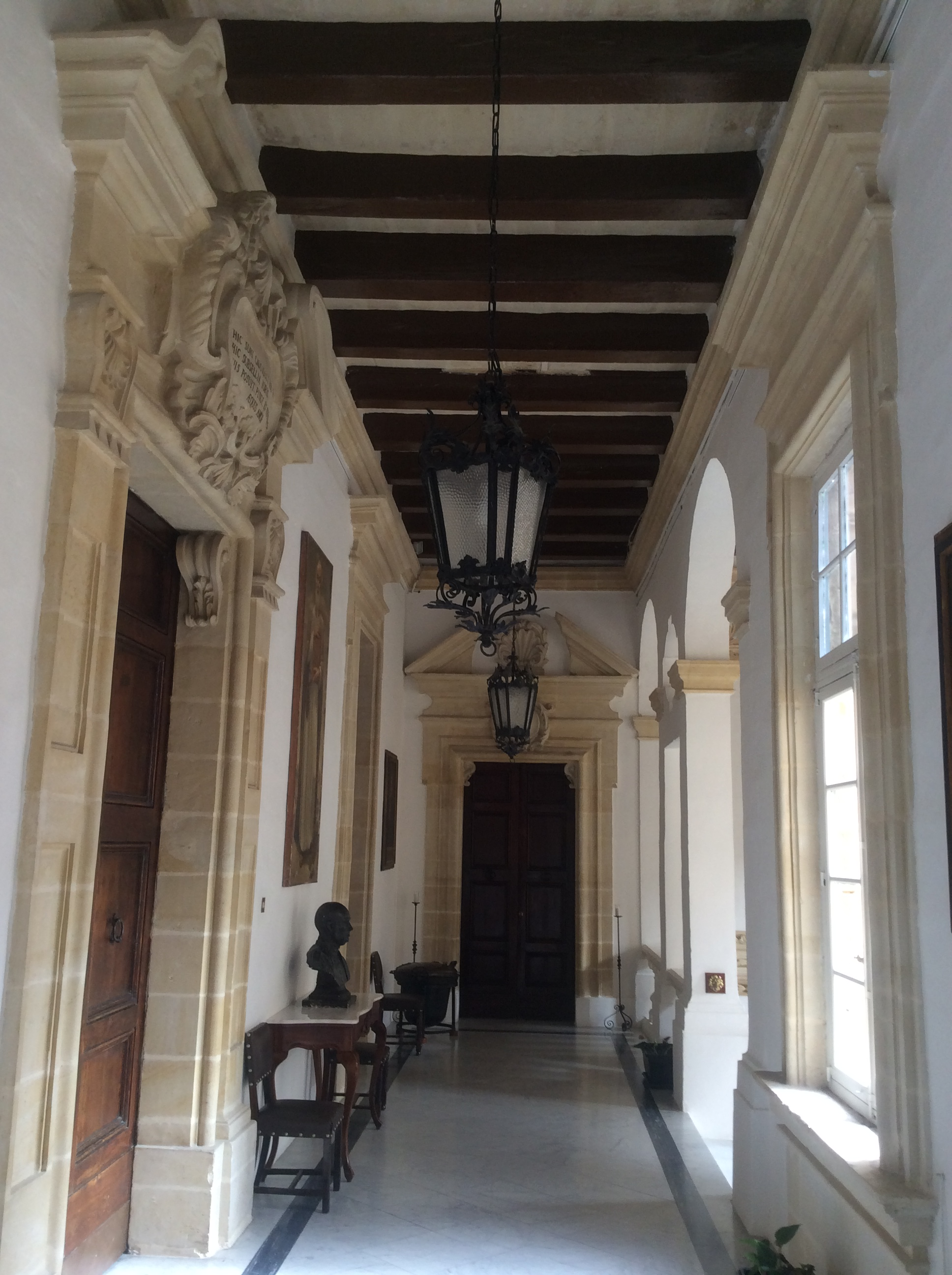 Main corridor of the upper floor of the Castellania in Valletta, Malta